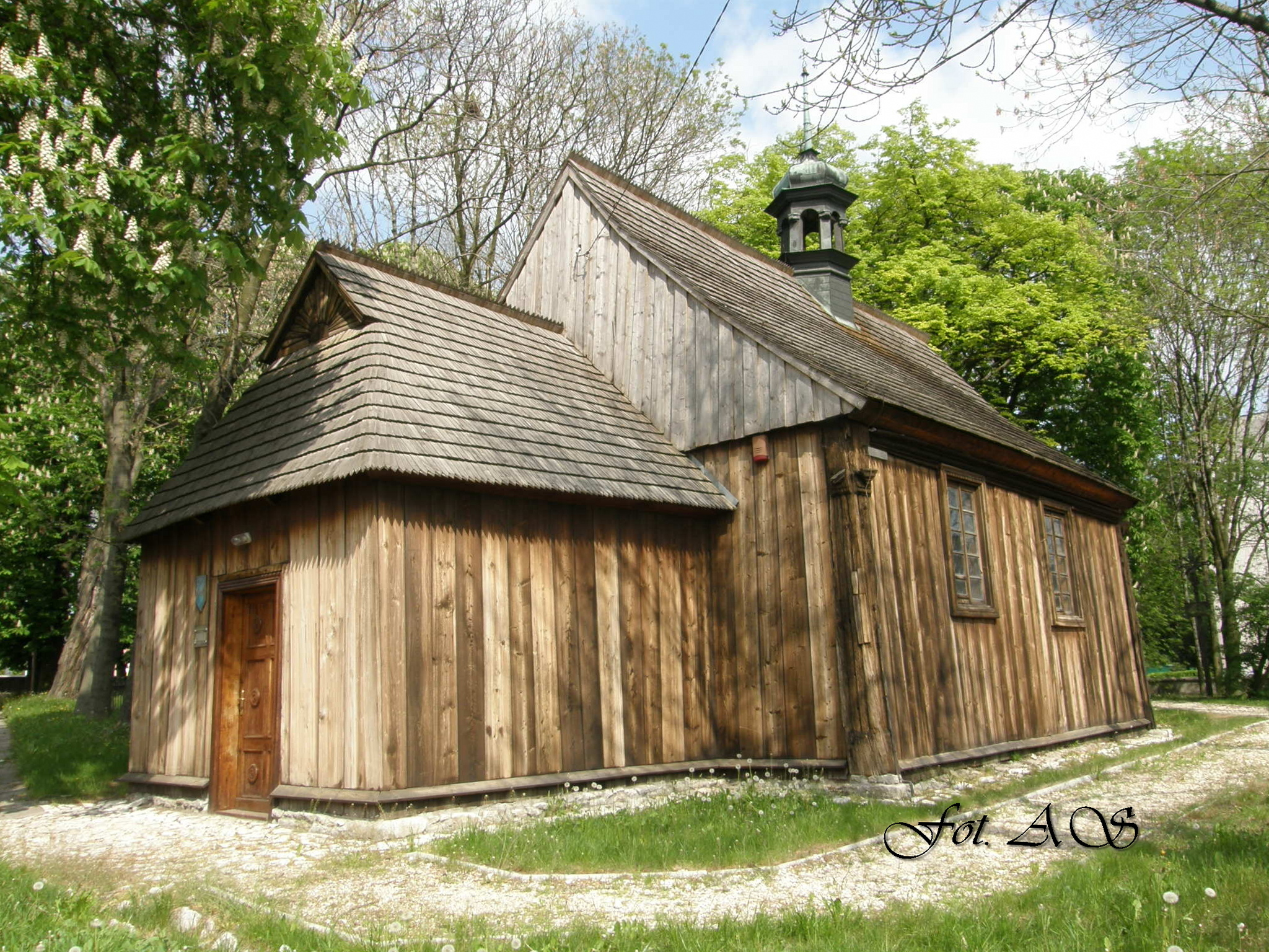 Church Saint Leonard in Busko - Zdrój